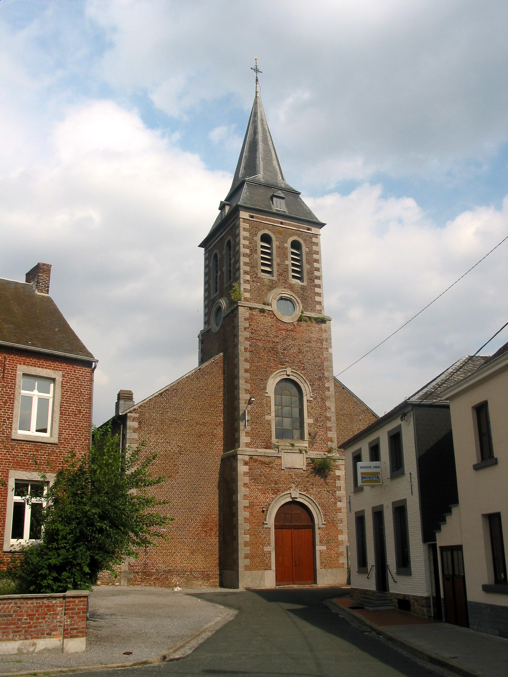 Taviers ( (Belgium), the St. Martin church (1836).